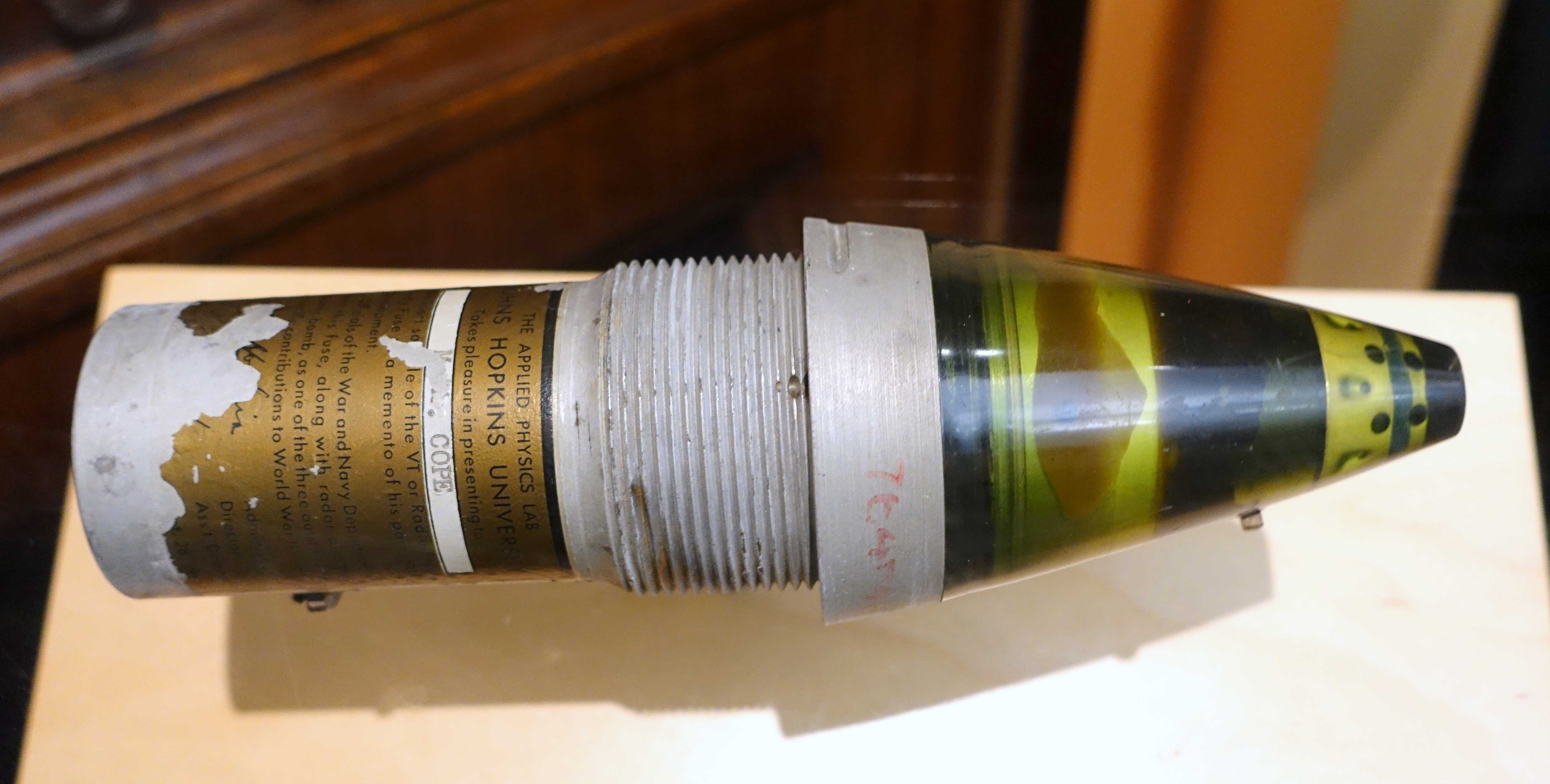 Exhibit in the National Museum of American History, Washington, DC, USA.